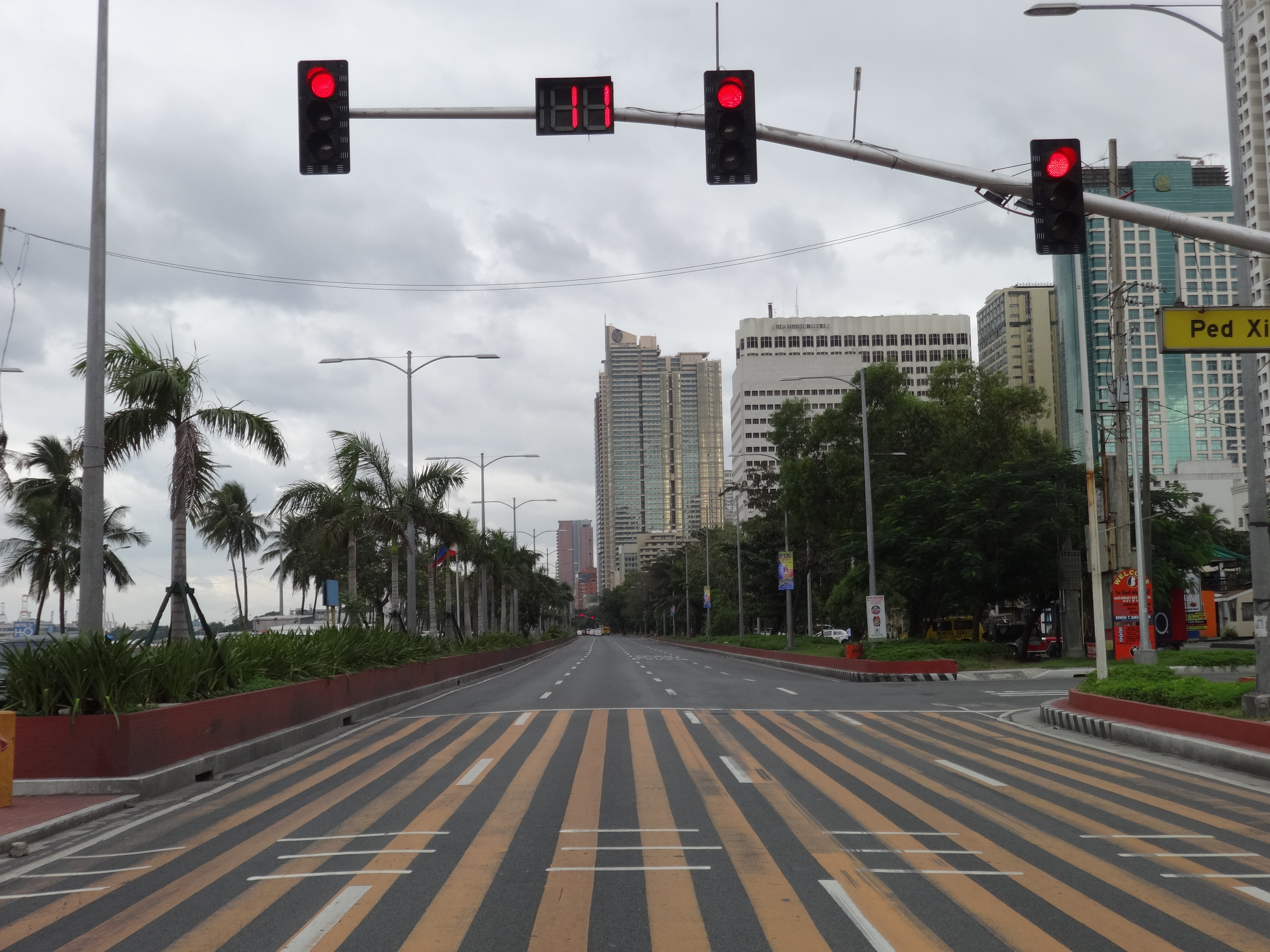 Stoplights along Roxas Boulevard in Manila